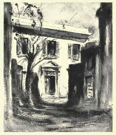 Drawing of the old Cape Colony Legislative Council building behind the Supreme Court. Cape Town. 1875.